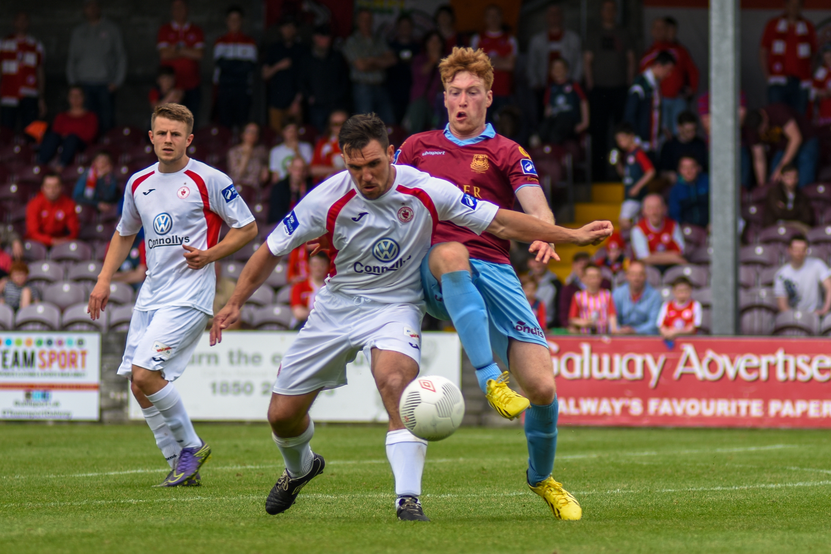 Gavin Peers (Sligo Rovers) and Gary Shanahan (Galway United) in action in the 2016 League of Ireland